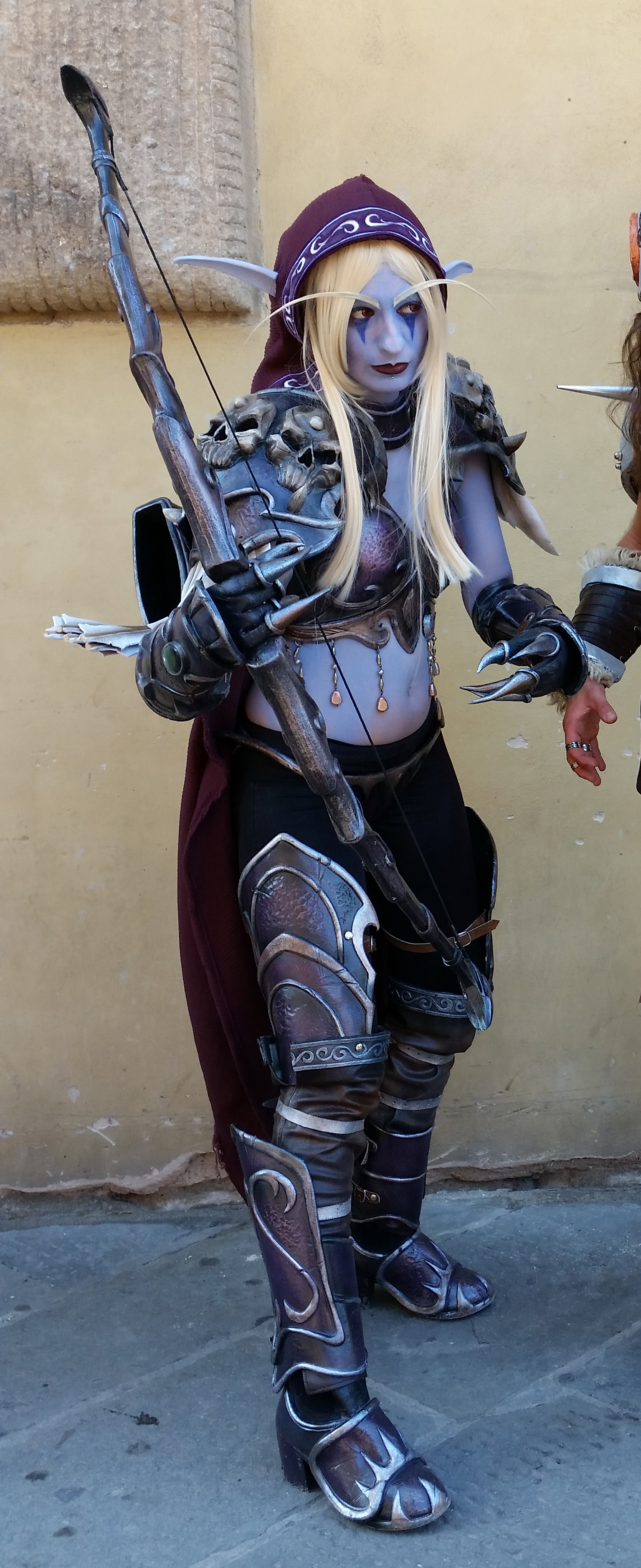 Cosplay at Lucca Comics & Games 2015 - Sylvanas from Warcraft